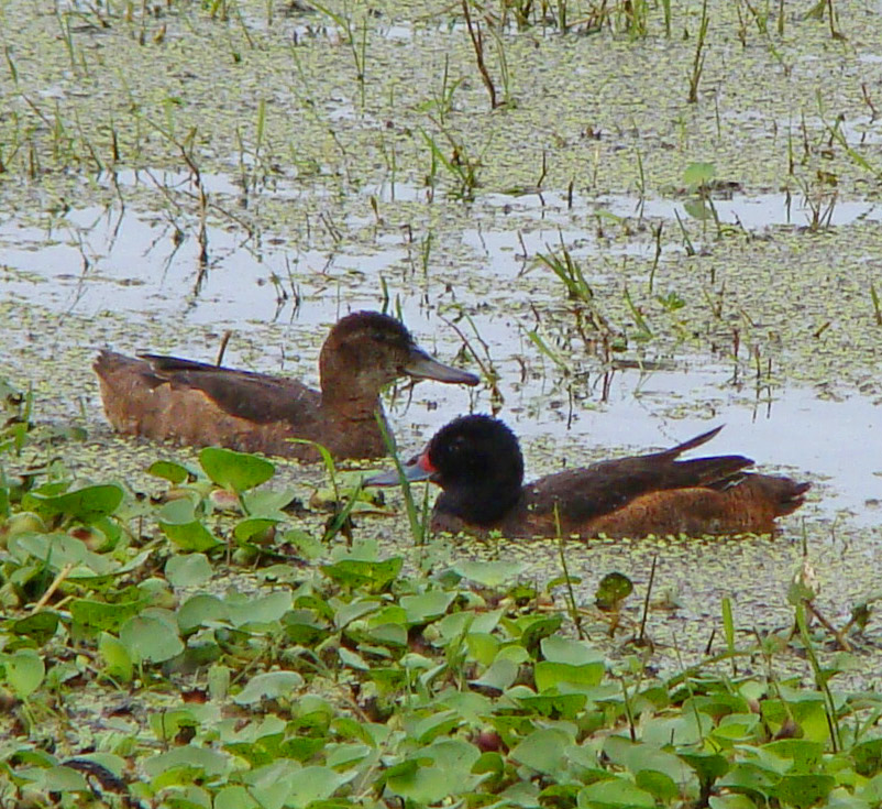 Heteronetta atricapilla couple in breeding plumage photographed in Povo Novo, Rio Grande do Sul, Brazil, in November 2009.